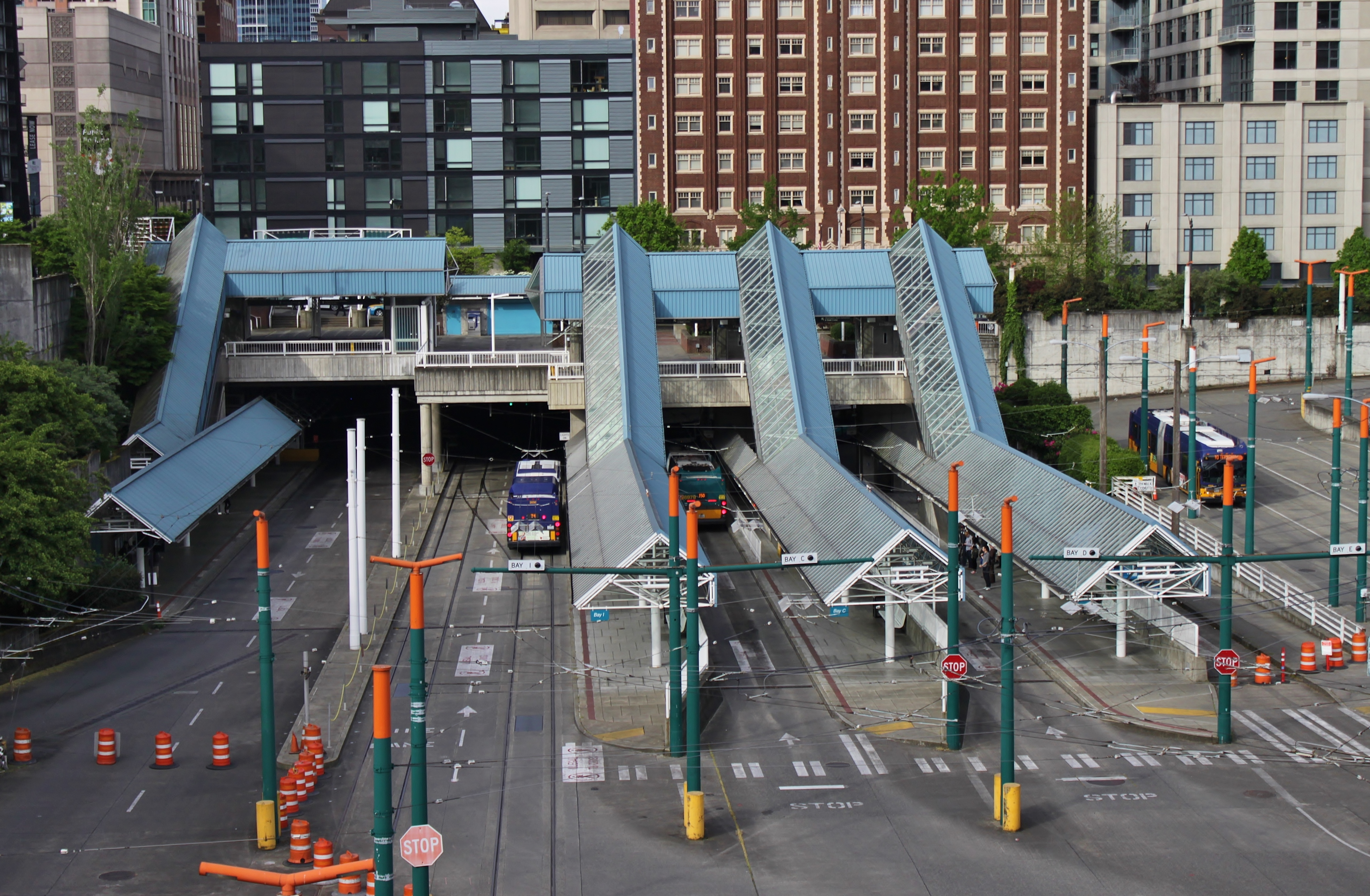 Looking east from Boren Avenue at Convention Place station, a bus station in Seattle, Washington, US.